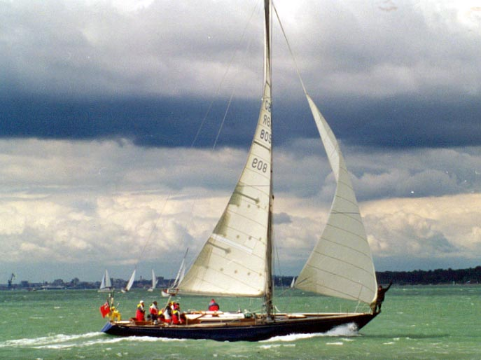 Yacht Lutine - the first Camper and Nicholson 55, built 1970, sailing in Southampton Water in 1999 The yacht was commissioned by Lloyd's yacht club for a new racing yacht to replace the previous Lutine which was a Laurent Giles design yawl. The Nic 55 was replaced in 2001 with a Nautor Swan 53.